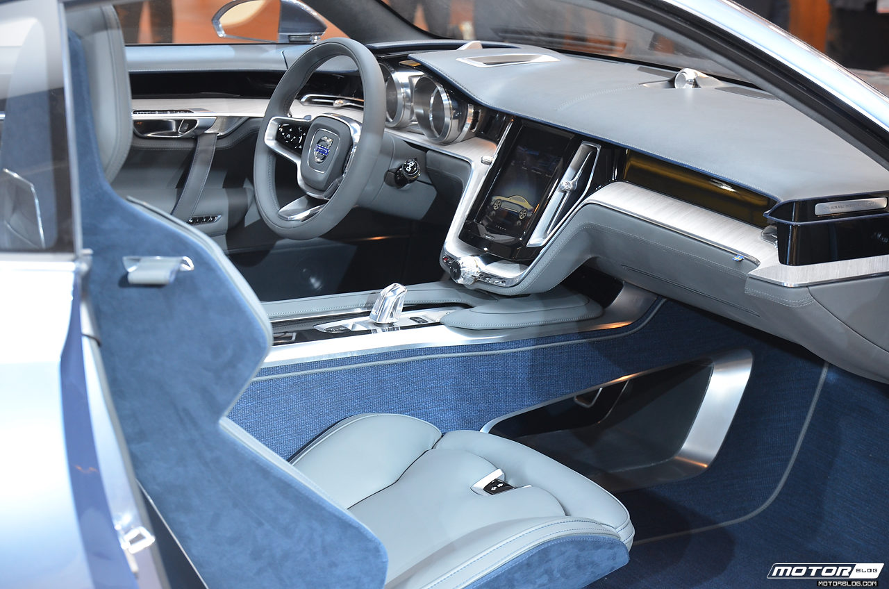 IAA Frankfurt 2013: Volvo Concept Coupe / Photo: Raphael Jahn ______________________ Please feel free to use this image for FREE under the Creative Commons (CC) licence. However, if you use the image, pls set a backlink to and give credit as following: "Image: ". For highres images or any other inquiries pls contact mailto: . Thanks.